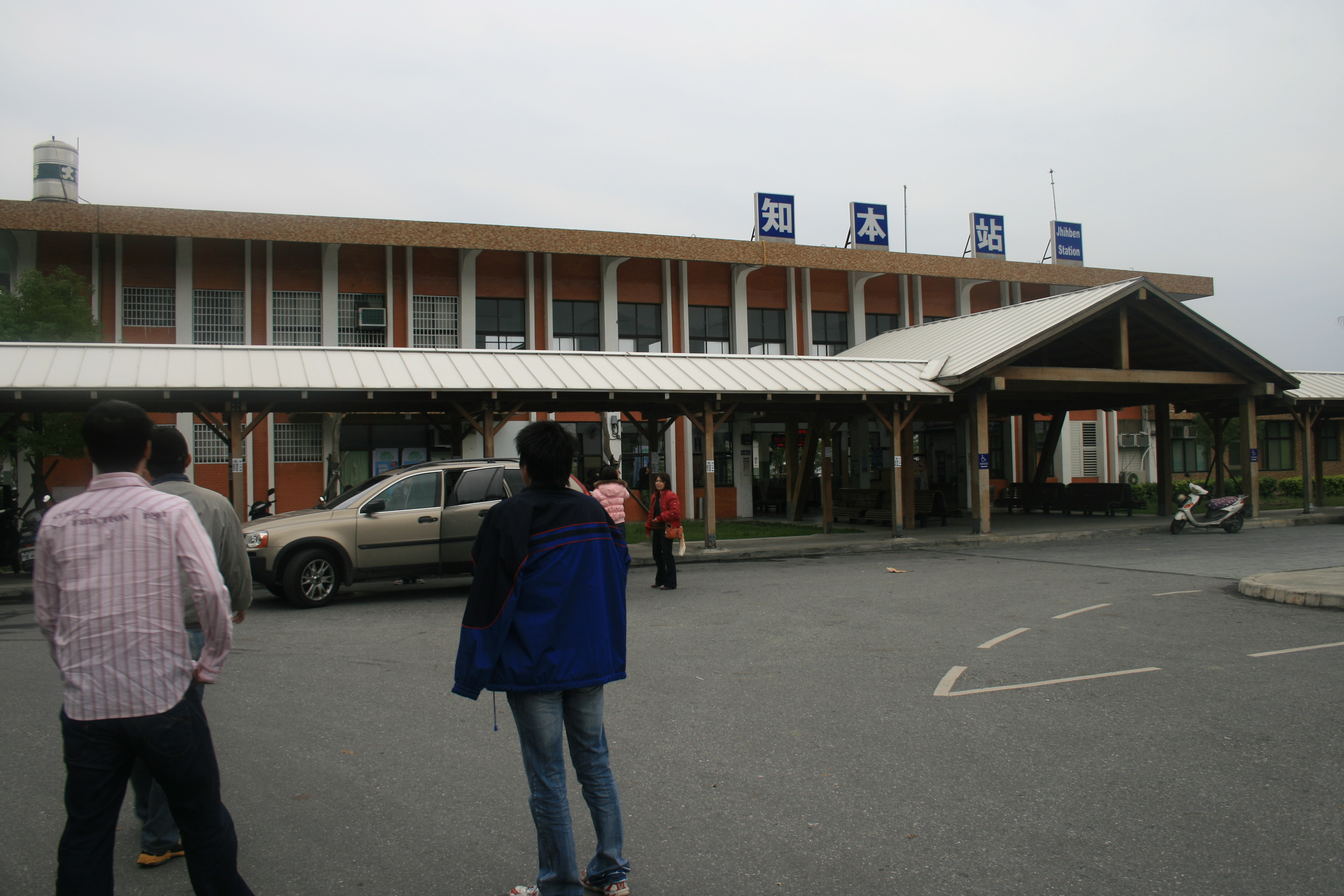 臺灣鐵路管理局知本車站 TRA Jhihben Station - Taitung City, Taitung County, Taiwan